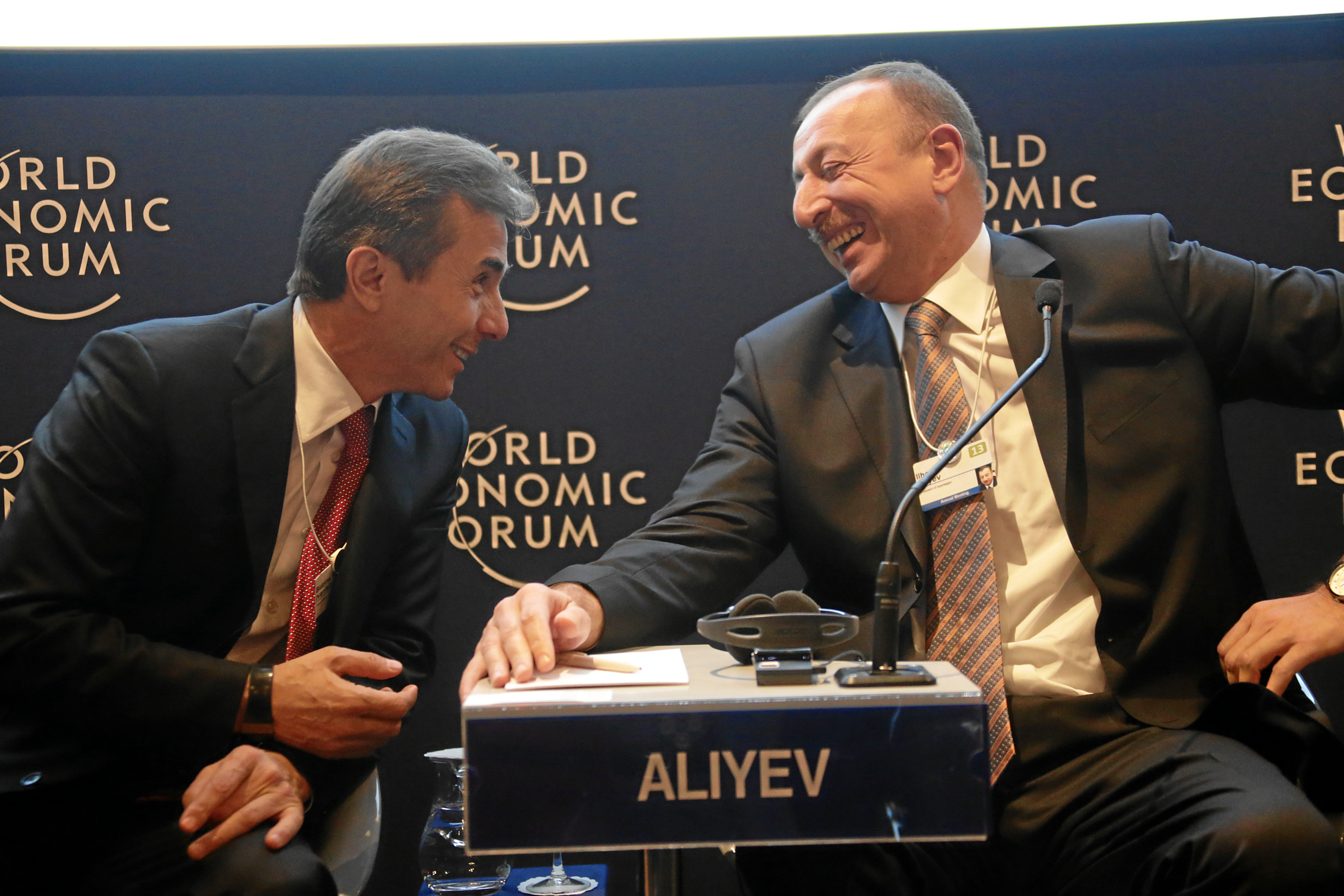 DAVOS/SWITZERLAND, 23JAN13 - Bidzina G. Ivanishvili, Prime Minister of Georgia and Ilham Aliyev (R), President of Azerbaijan smiles together during the interactive session 'A New Dawn for Central Asia - Rebuilding Economic Confidence' at the Annual Meeting 2013 of the World Economic Forum in Davos, Switzerland, January 23, 2013. Copyright by World Economic Forum.